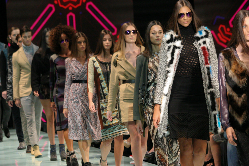 Final walk through of a collection by Custo Dalmau in the Custo Barcelona runway show during Miami Fashion Week